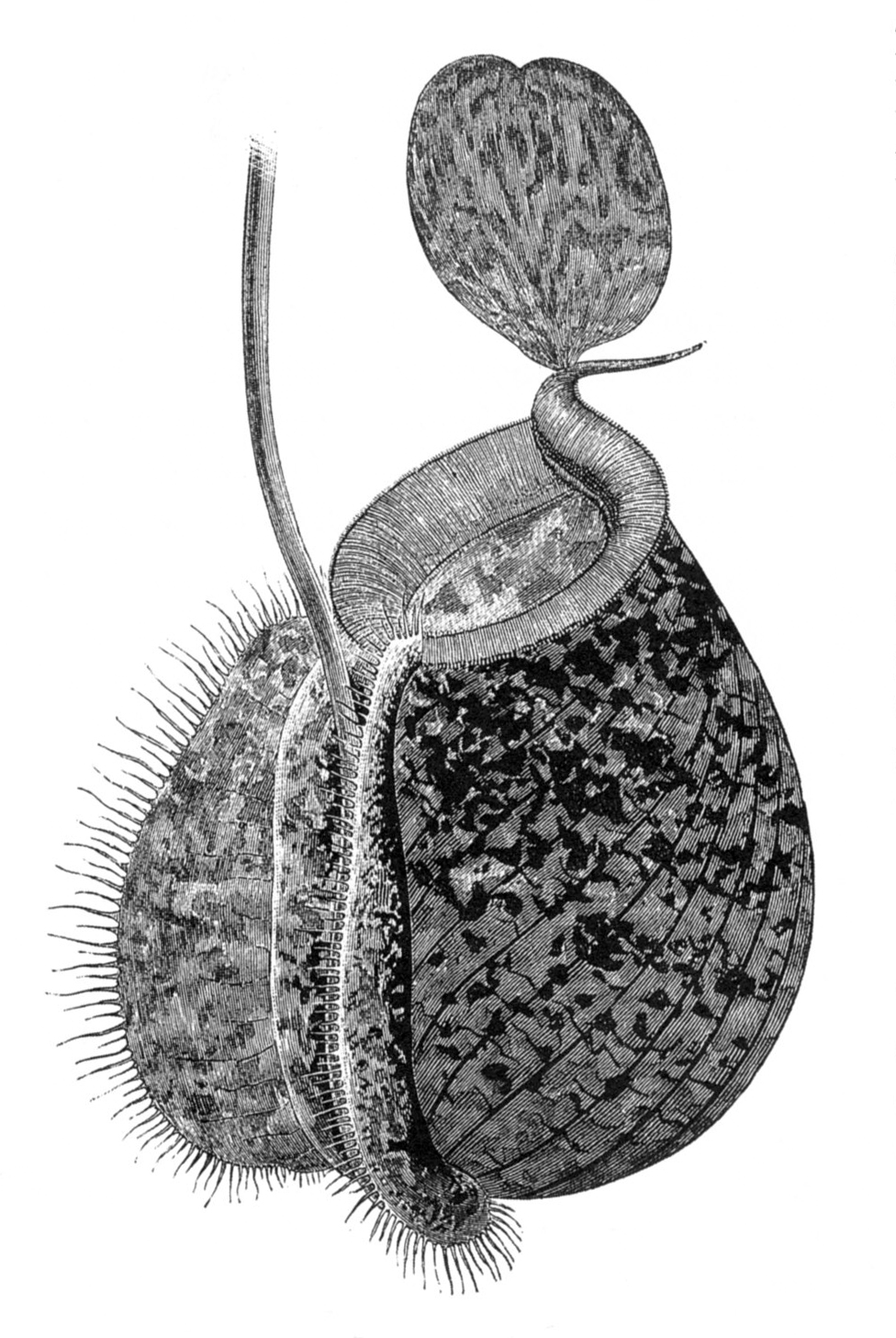 Illustration of Nepenthes × hookeriana from the type description.